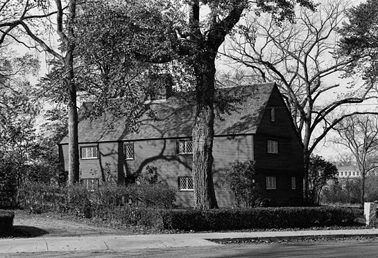 John Whipple House, 53 South Main Street, Ipswich (Essex County, Massachusetts) (cropped). Historic American Buildings Survey—HABS image.